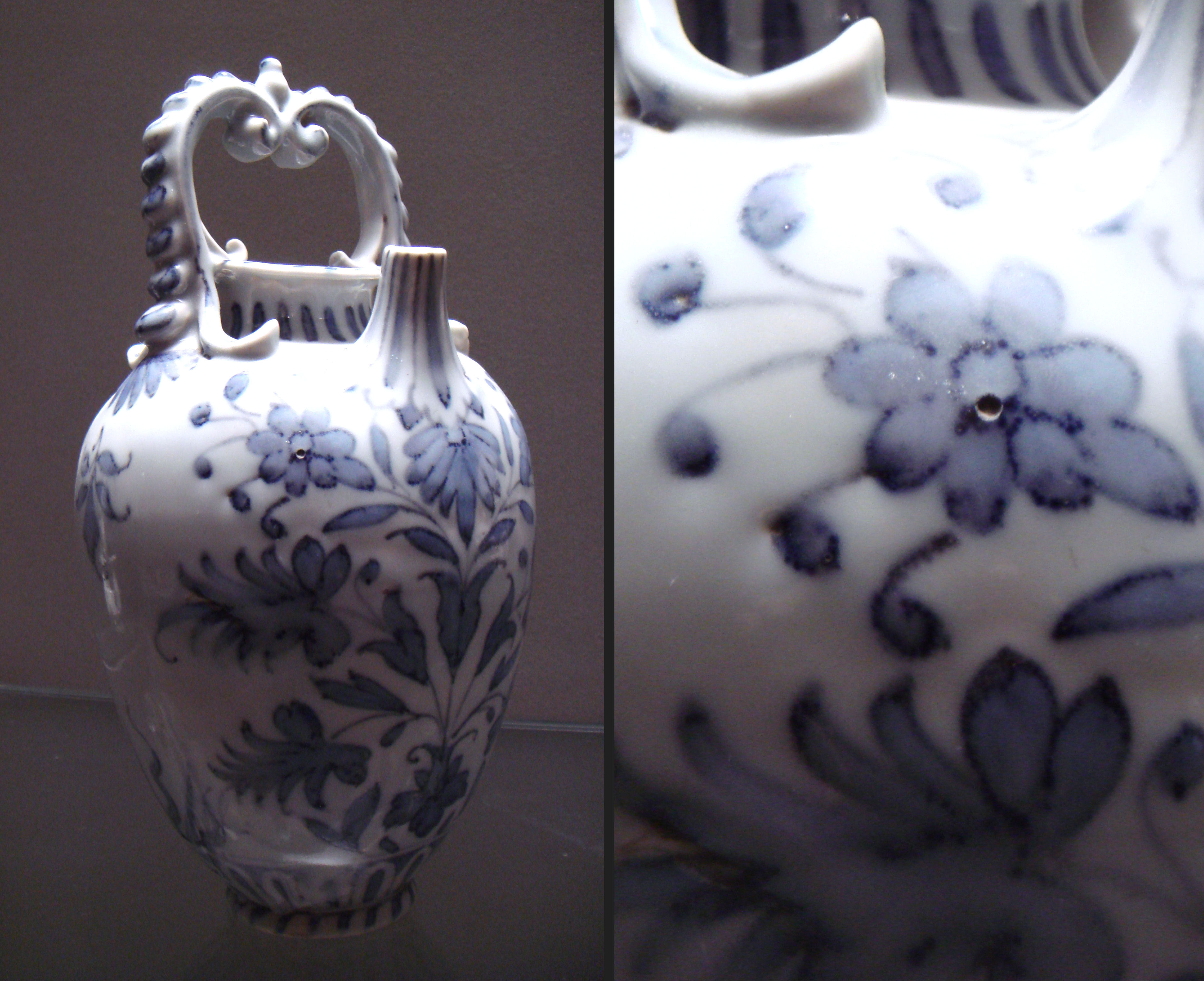 Medici_porcelain_with_surface_detail_Florence_1575_1587